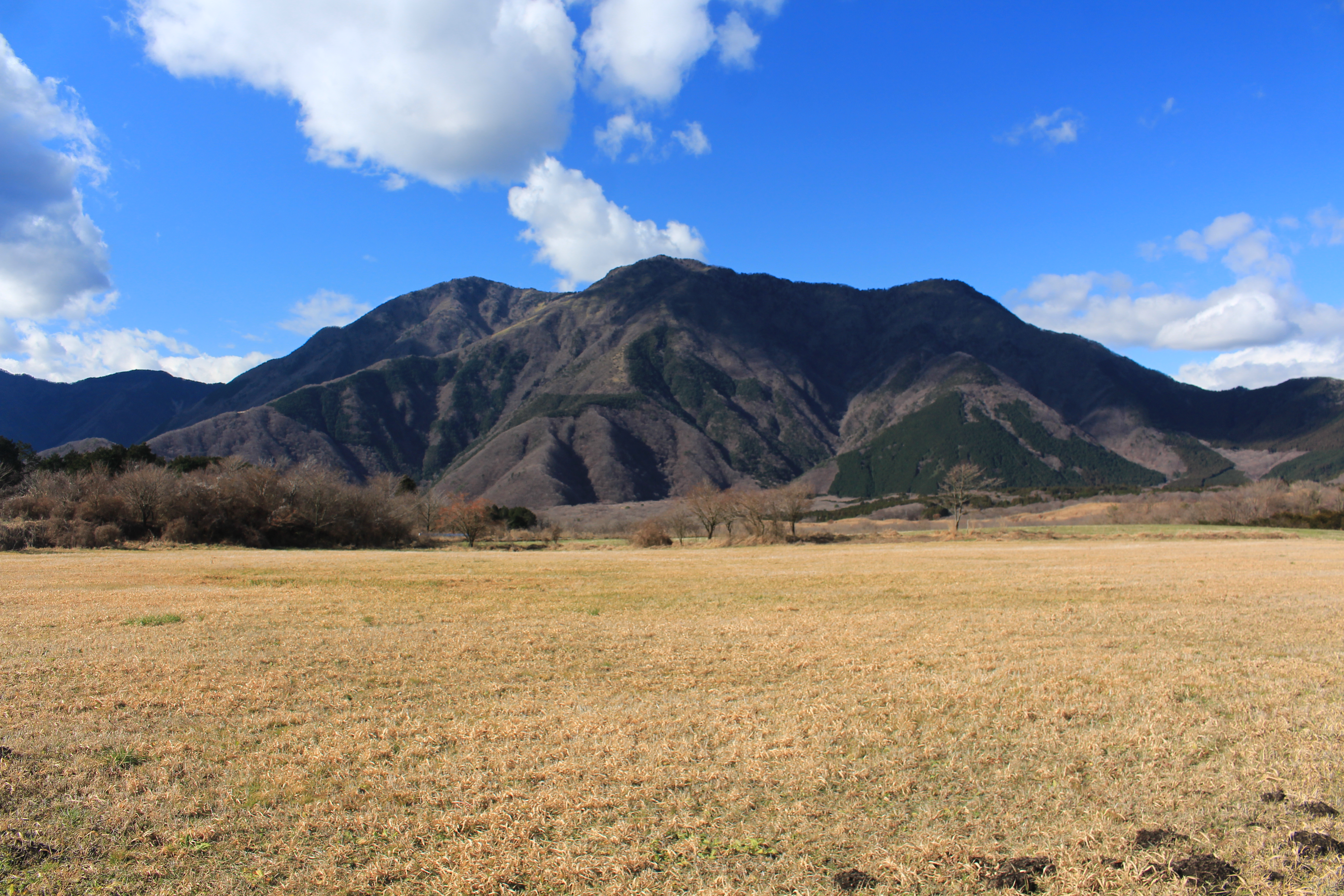 Mount Kenashi and Mount Ama seen from Asagiri Highland in Fujinomiya, Shizuoka Prefecture, Japan.